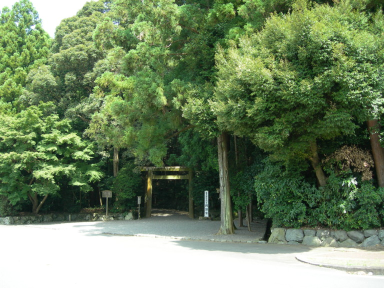 The Betsugu Yamatohime-no-miya Sanctuary of Kotaijingu(Naiku) at Ise city, Mie Prf., Japan.